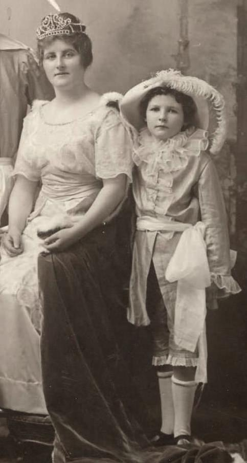 Participants at the 1918 Queen Carnival in Hobart, Tasmania, including Enid Lyons (centre) as "Queen of the Public Service" and a young Errol Flynn (right) as one of her page boys.